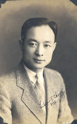 Zheng Ji